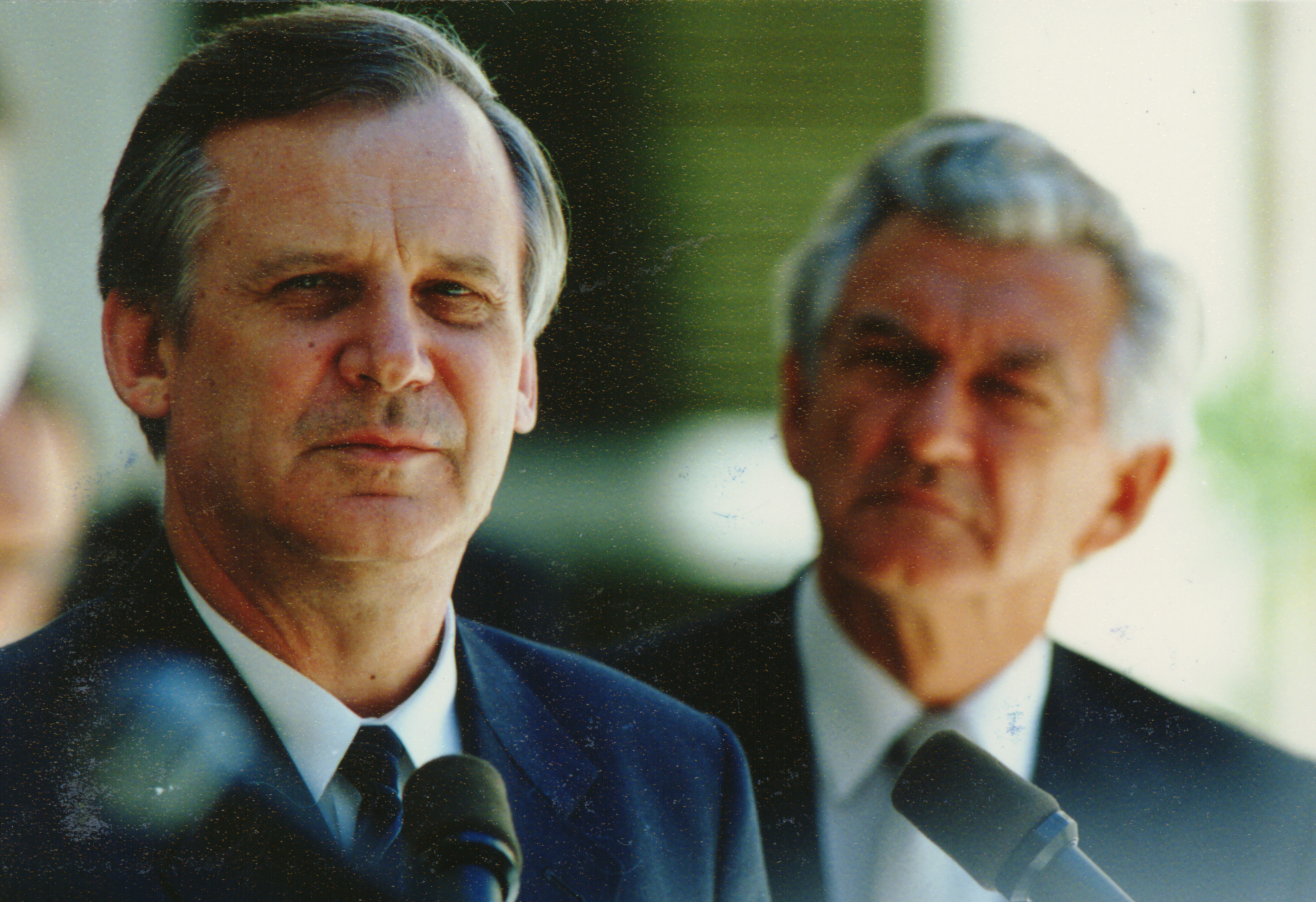 Chairman of the USSR Council of Ministers, Nikolai Ryzhkov, in Canberra with Prime Minister Bob Hawke, February 1990.